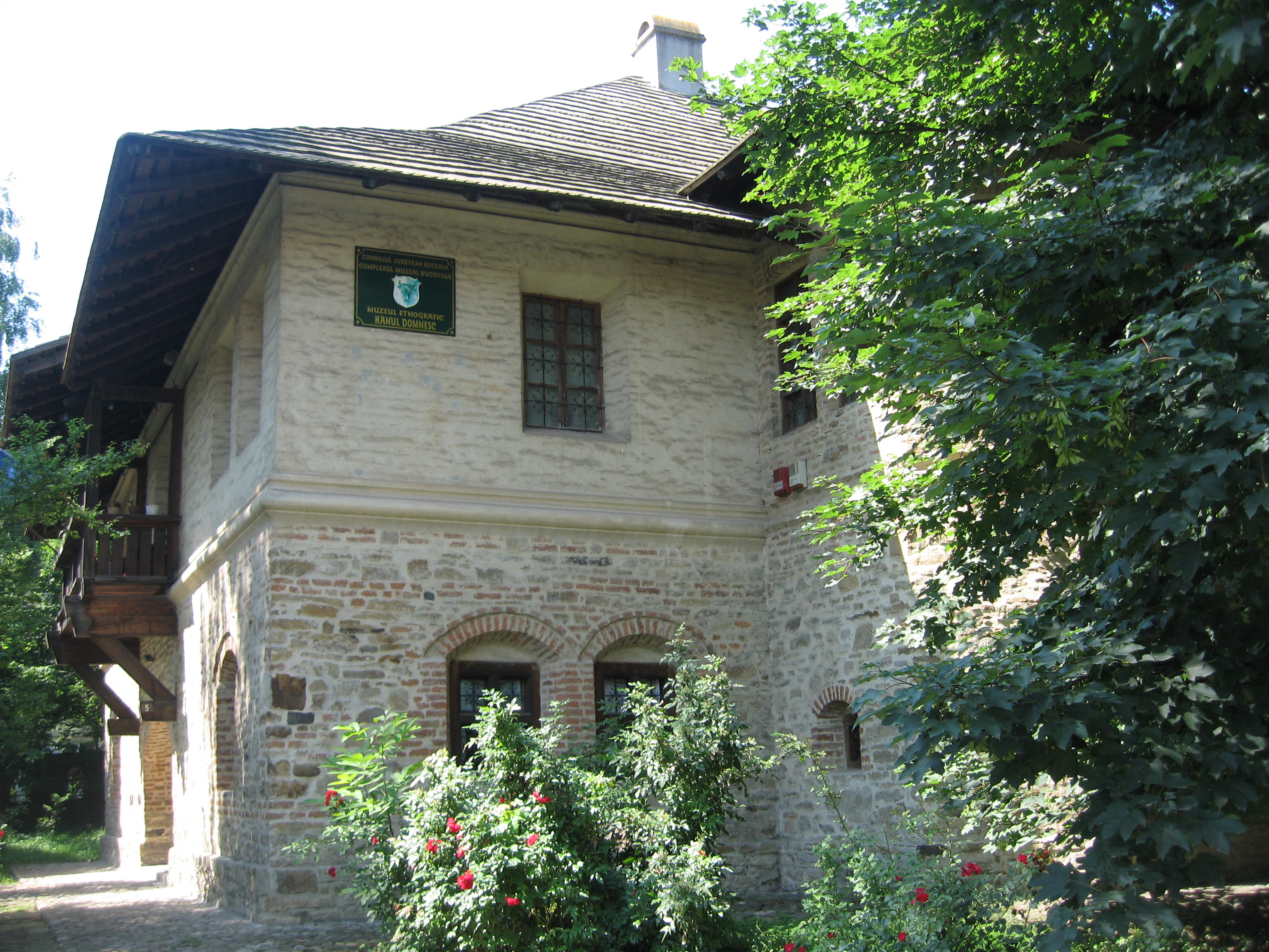 The Princely Inn in Suceava (The Ethnographic Museum).